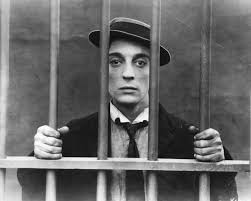 Stills Cops 1923.